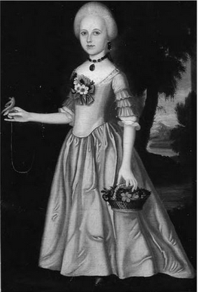 1771 painting of Frances Montresor, born 1760.